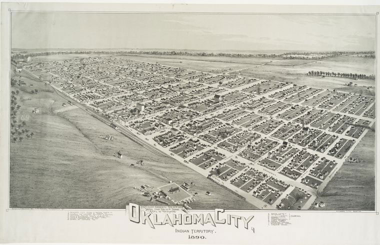 Oklahoma City, Indian Territory Albert E. Downs (American, 19th century), after Thaddeus Mortimer Fowler (American, 1842–1922) Tinted lithograph, published by Thaddeus Mortimer Fowler, ca. 1890 Deák 878 41 x 75 cm. Digital Image ID: 55116